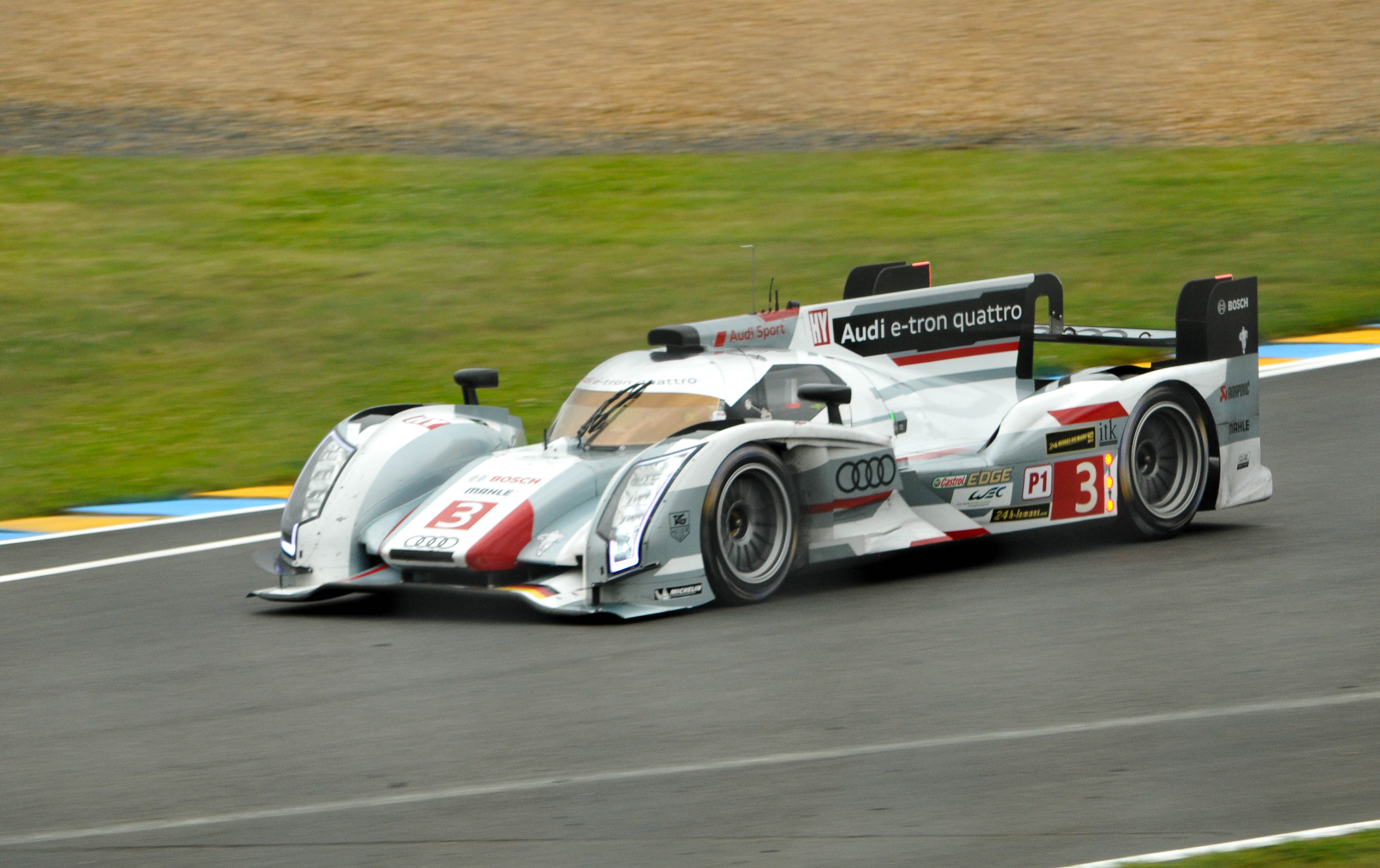 Le Mans 2013 (167 of 631)